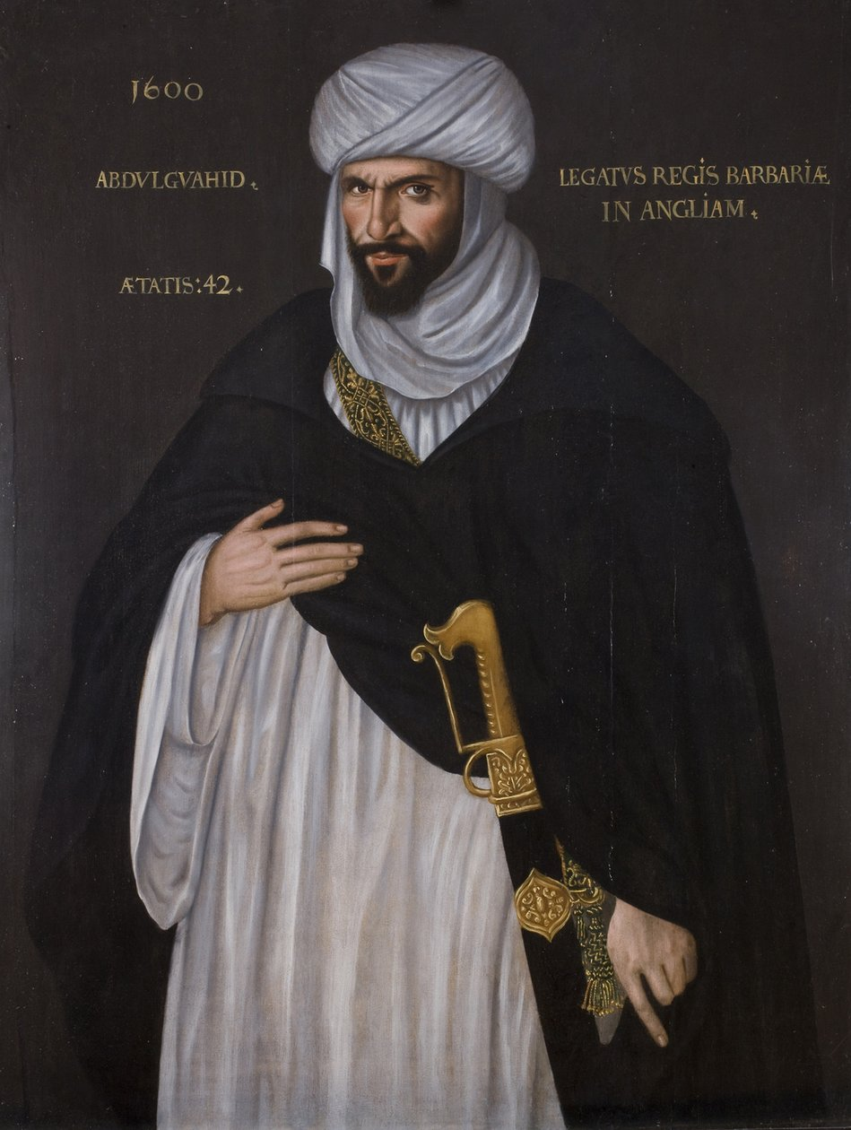 A reproduction of an Elizabethan painting of the Moorish ambassador who visited Queen Elizabeth I from Barbary in 1600 to propose an alliance against Spain. The original belongs to the collection of the University of Birmingham, England. It is the earliest surviving English portrait of a Muslim sitter.[1] Inscriptions to the left: 1600 / Abdulguahid (Abd el-Ouahed). Aetatis (‘Age’): 42. Right: Legatus regis Barbariae in Angliam (‘ambassador of the king of Barbary to England’).